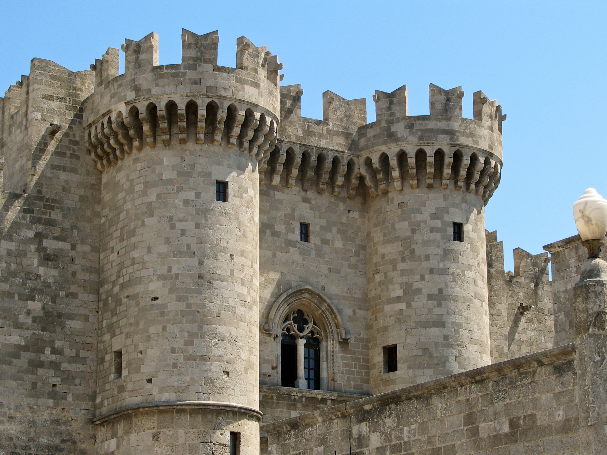 Rhodes old town palace, Rhodes, Greece